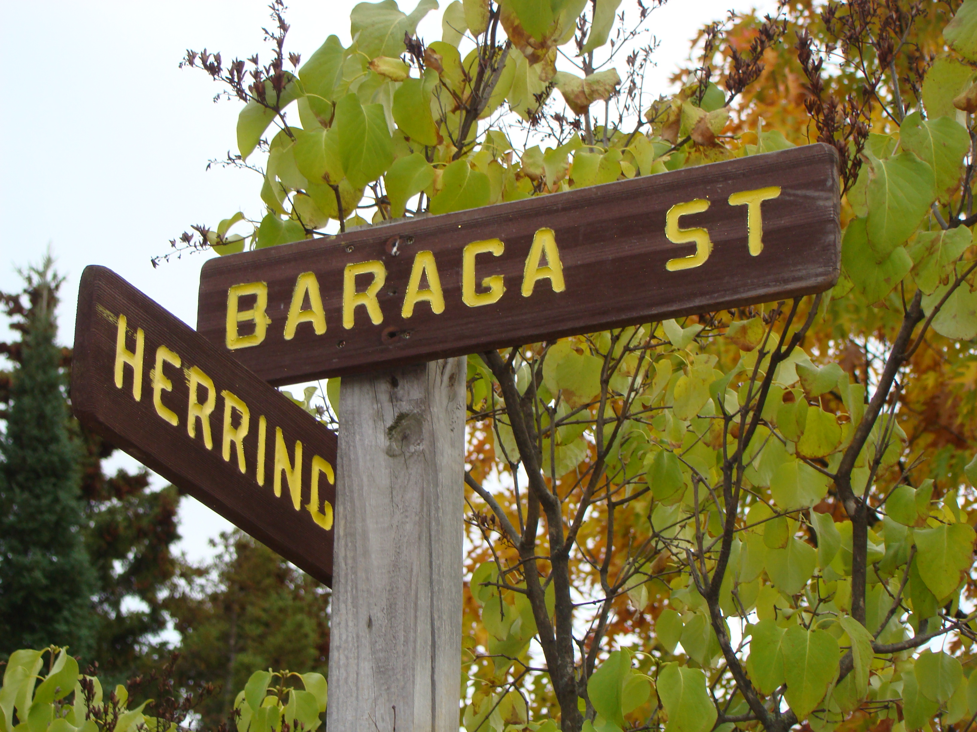 Baraga Street, in the town of La Pointe, Wisconsin (On Madeline Island).